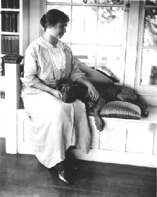 Helen Keller with a pitbull